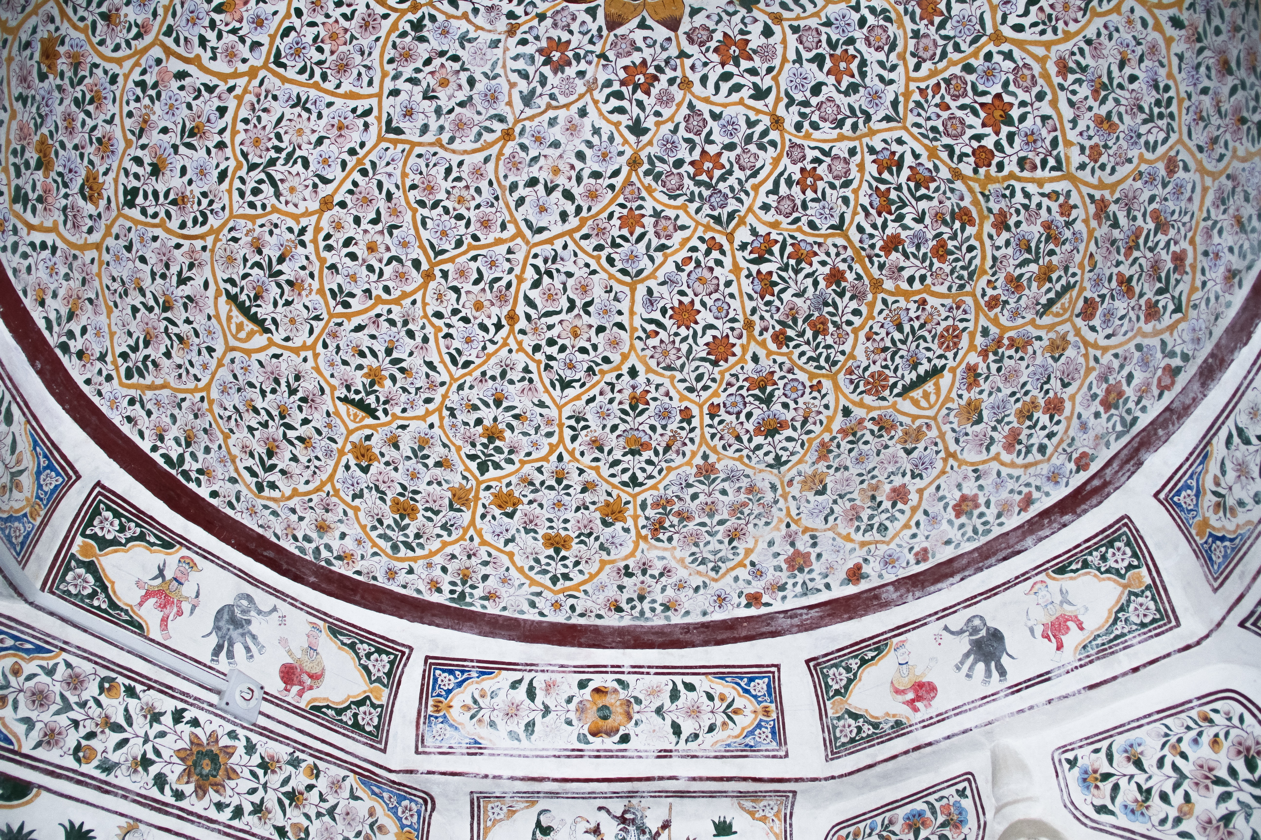 Katas Raj Temple, Lahore, Pakistan1